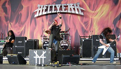 The hard rock supergroup Hellyeah playing as part of the 2007 Family Values Tour.